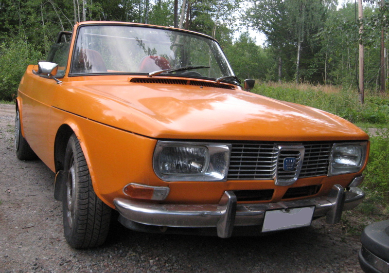 1971 SAAB 99 convertible in "india yellow".